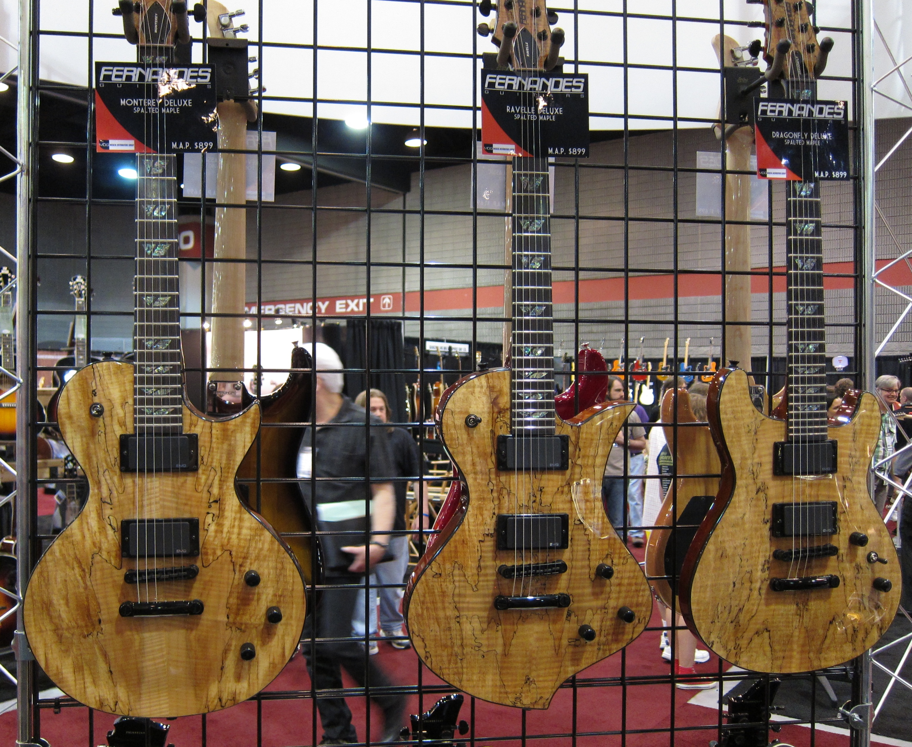 Fernandes Monterey Deluxe Fernandes Ravelle Deluxe Fernandes Dragonfly Deluxe Pics of stuff from the Summer NAMM show 2010 in Nashville Tennessee. I will add more info on what's in the pics as time allows.